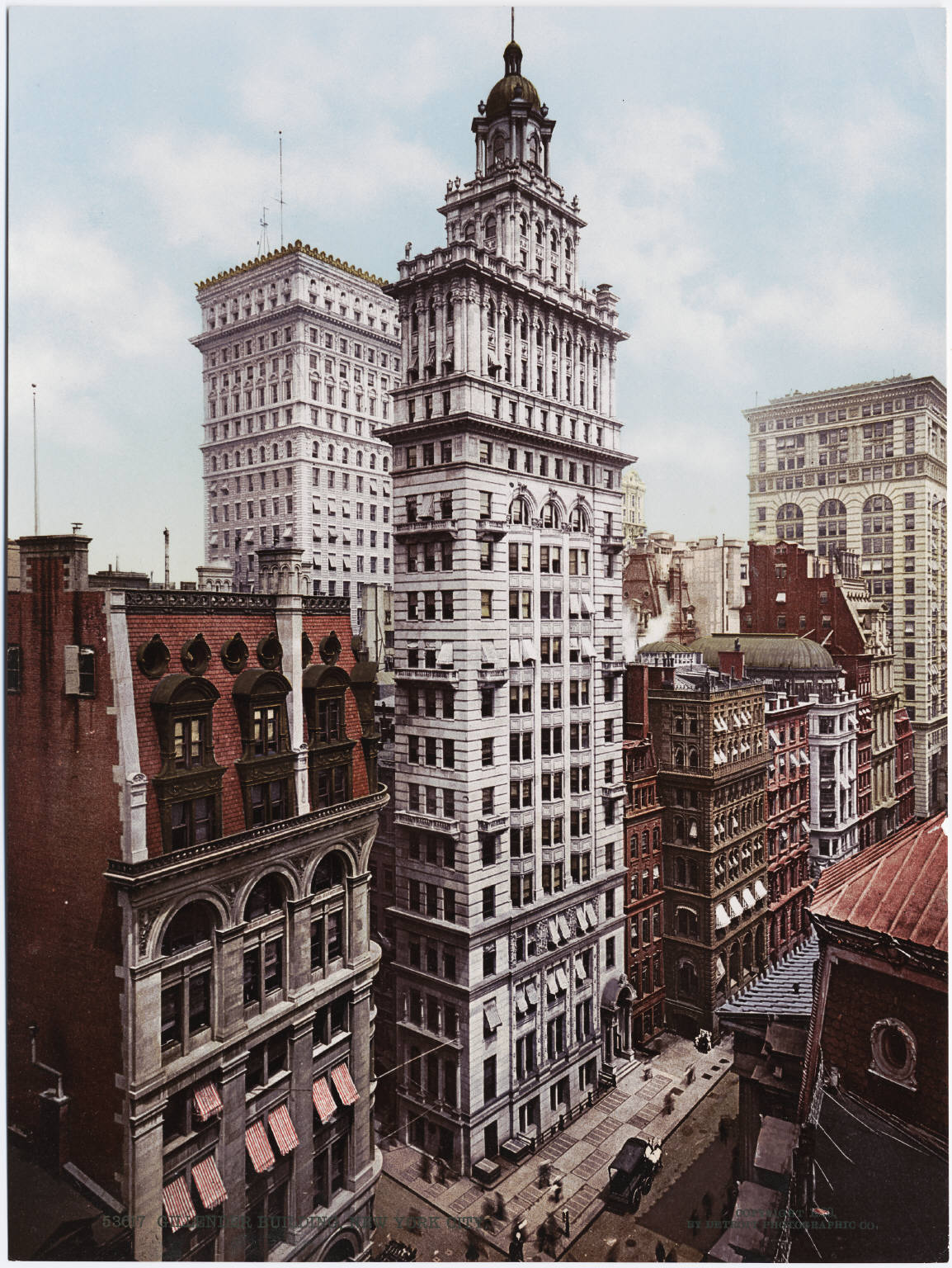 A photochrom postcard published by the Detroit Photographic Company.